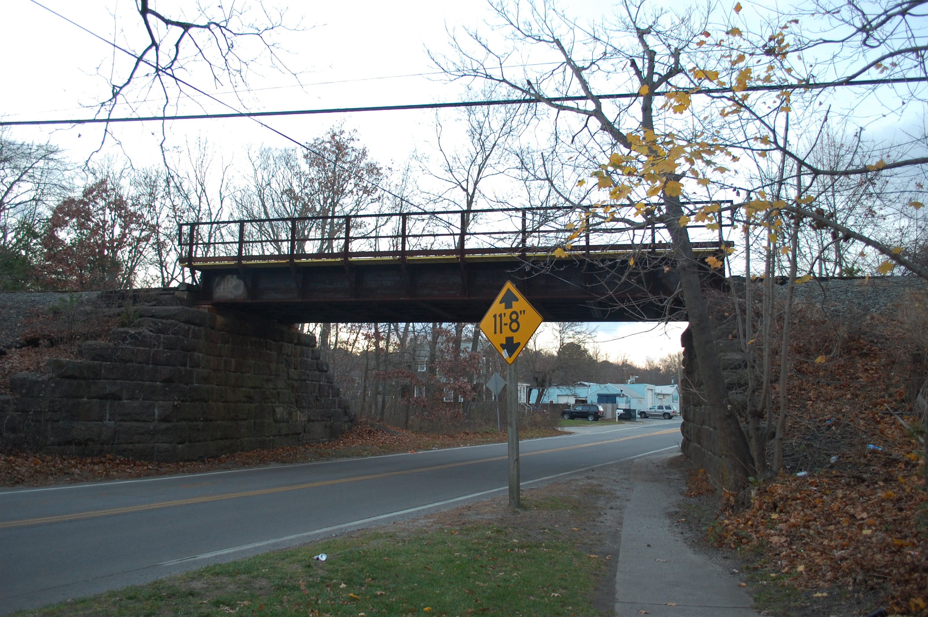 Long Island Rail Road Overpass over South Country Road (Suffolk County Road 36) in Brookhaven, NY.